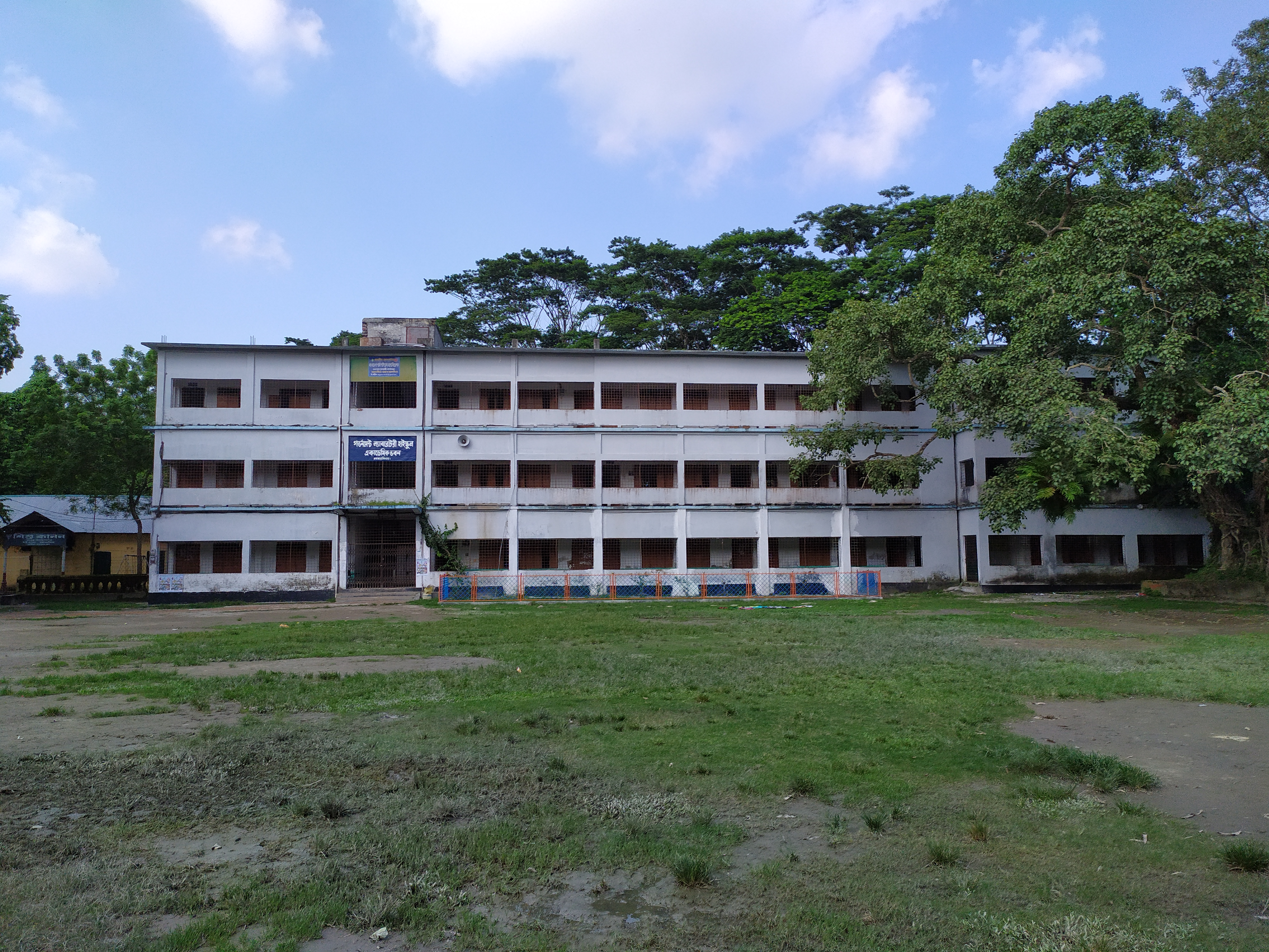 Govt. Laboratory High School, Mymensingh